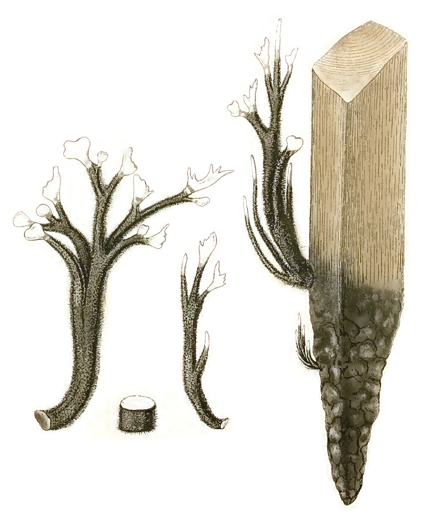 Xylaria hypoxylon